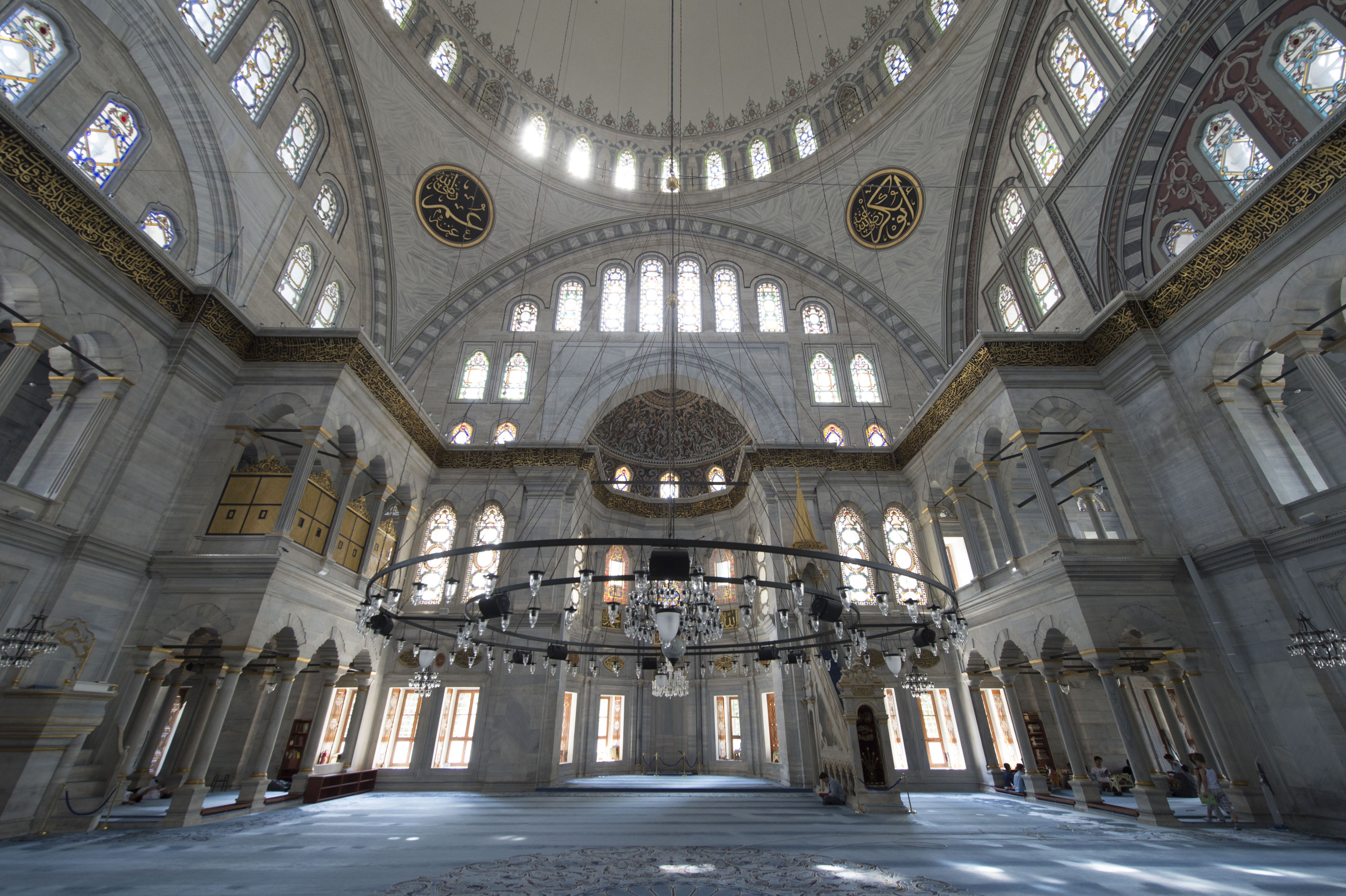 built by a Greek architect, Simon, who in the opinion of Strolling Through Istanbul (Redhouse, 1989) produced "a failure, but a charming one". I fell for its spell ages ago, not the least because crossing its awkwardly formed "shortcut" from the Covered Market side to the exit at the other side provides a short moment of rest in the busy city. If you want some more rest, the mosque is spacious and quiet. The mosque was begun by Sultan Mahmut I in 1748 and finished by his brother and successor, Osman III in 1755.